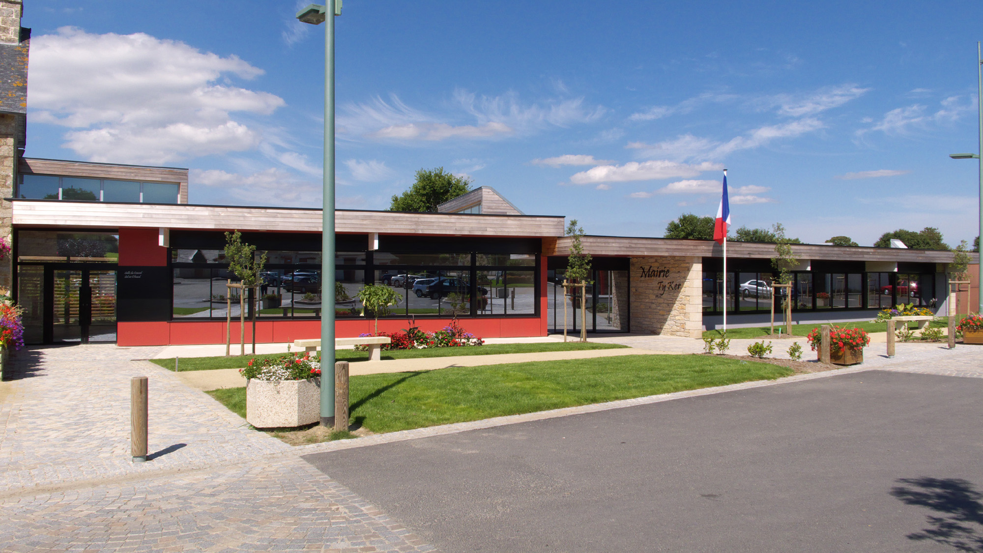 City hall of Pabu in Côtes-d'Armor, Brittany, France